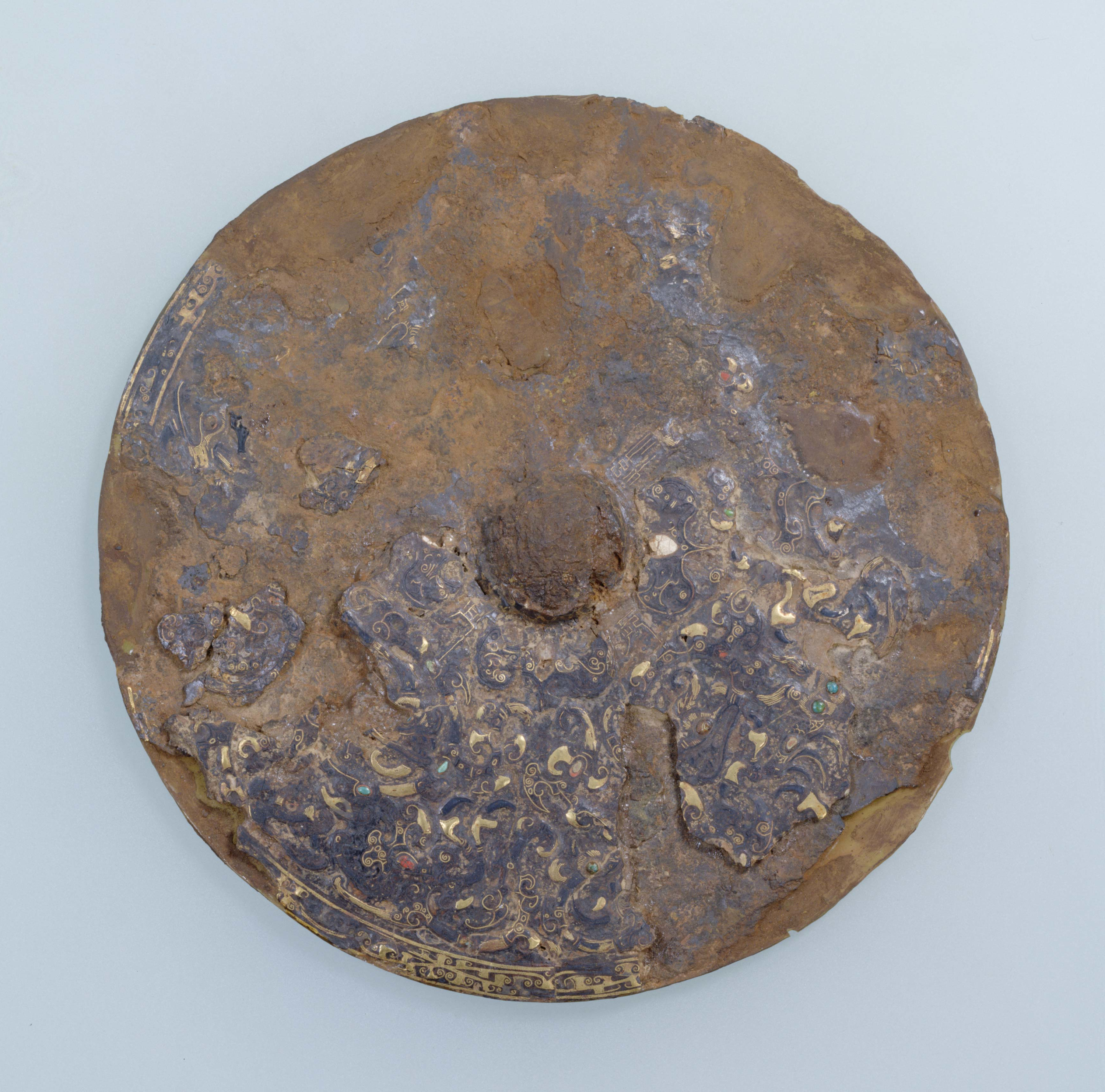 Iron mirror with dragon motif in gold and silver inlay, decorated with gemstones made in 2nd -3rd century China discovered from a kofun tomb in Hidaka, Hita, Oita prefecture. A collection of Tokyo National Museum (Important Cultural Property of Japan).